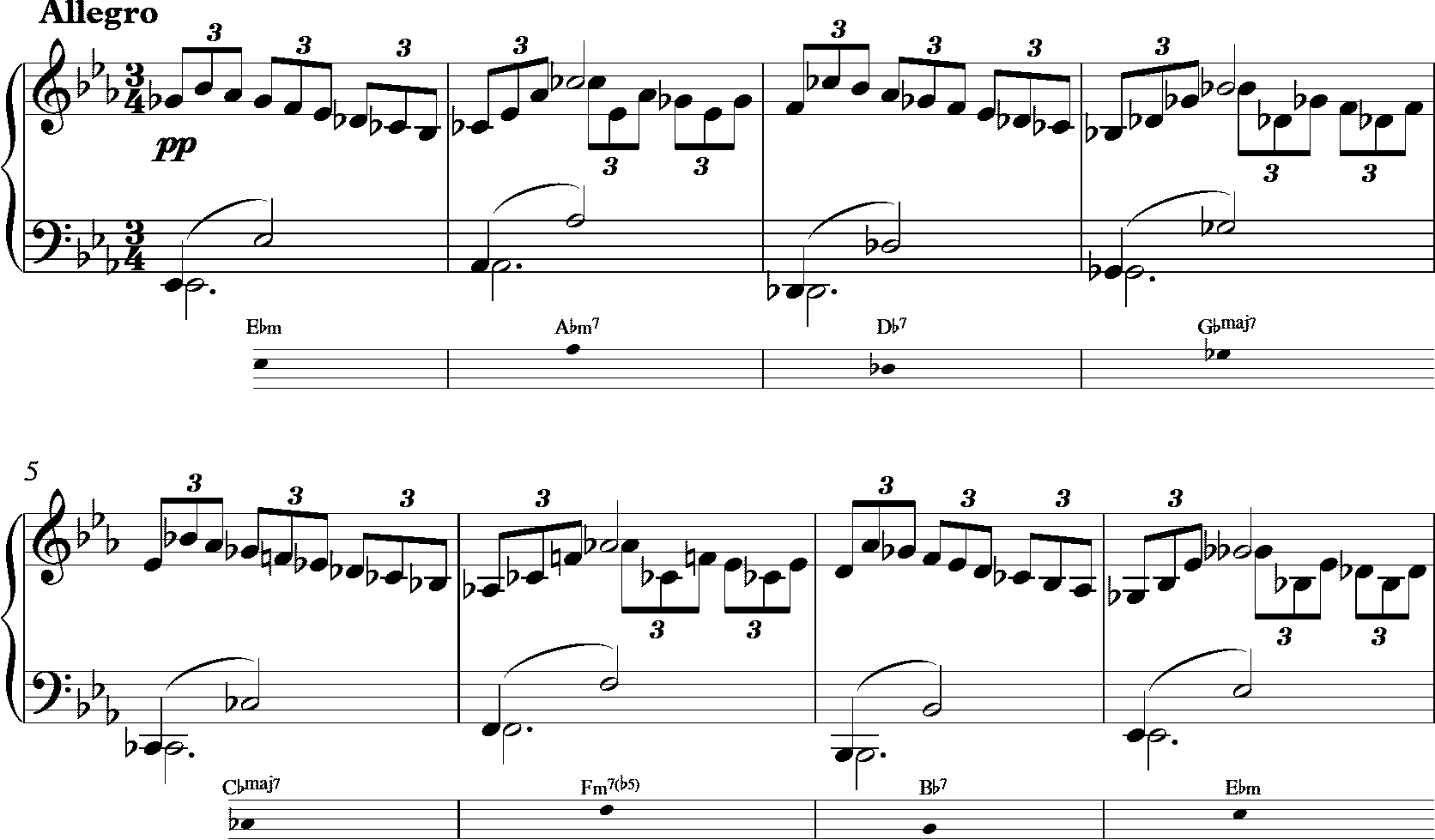 Schubert Impromptu in E flat